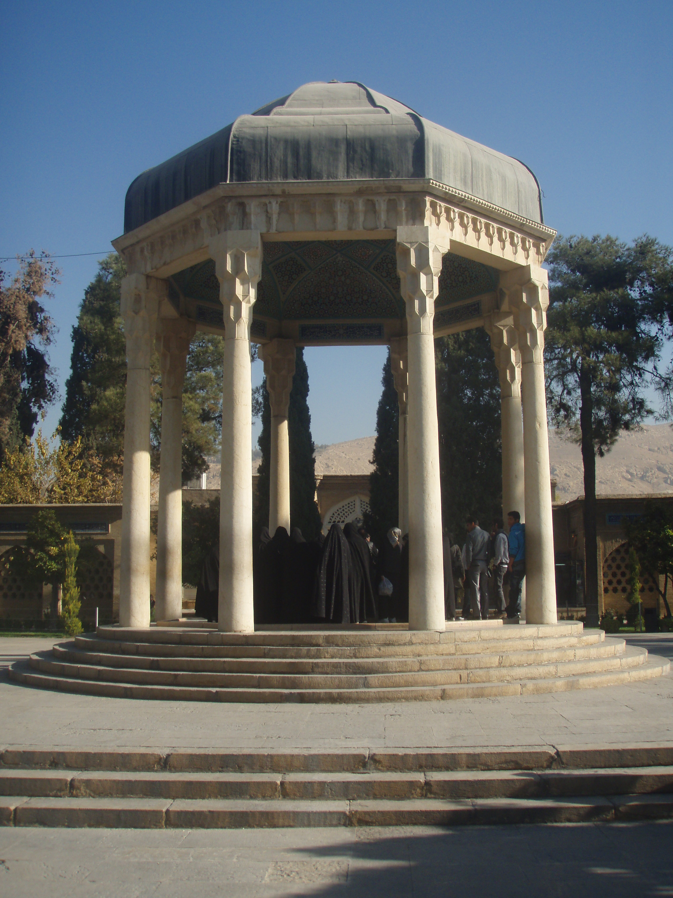 Tomb of Hafez, Iranian Poet, Shiraz, Iran.